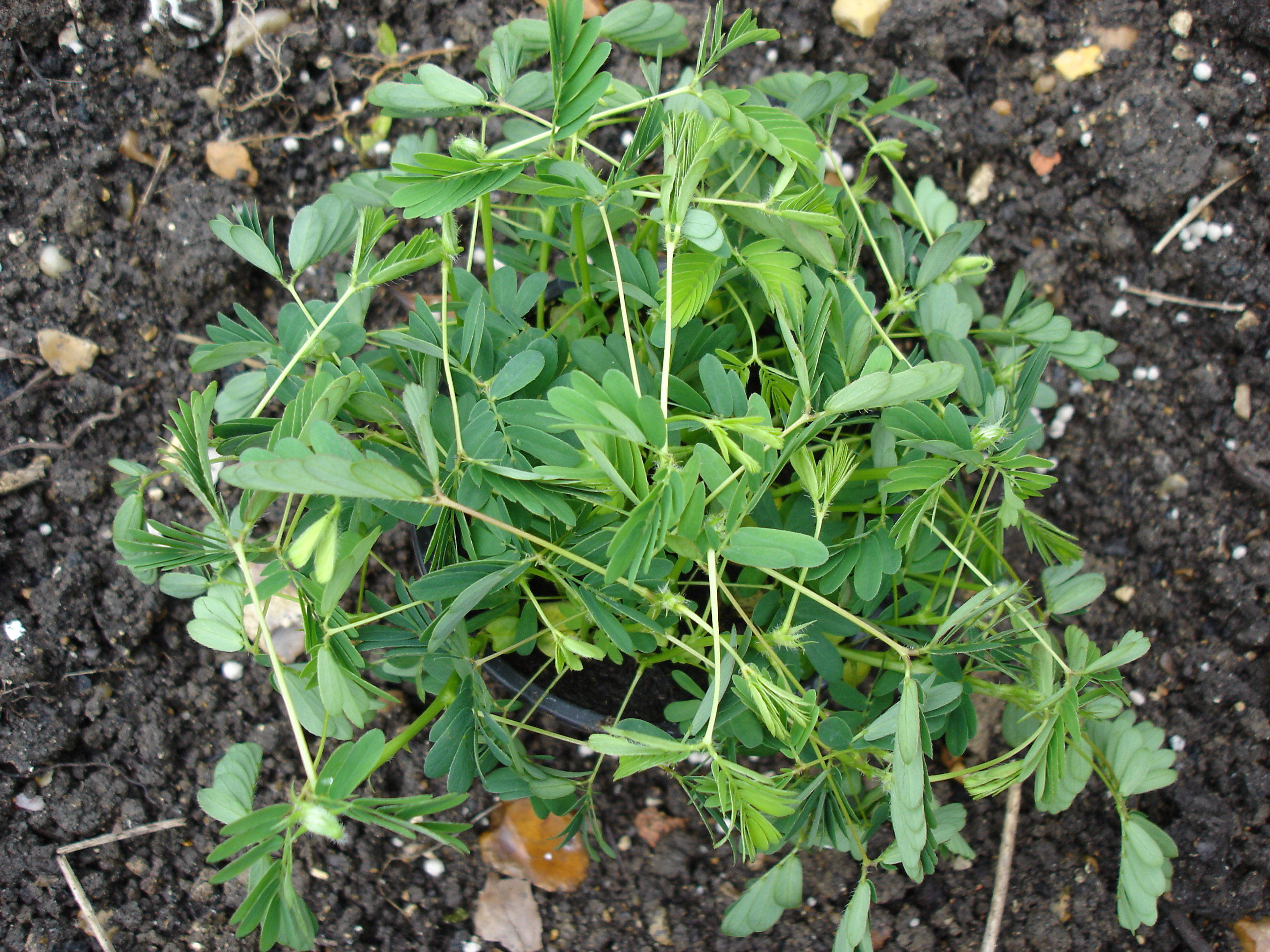 The Sensitive plant (Mimosa pudica L.) is a creeping annual or perennial herb often grown for its curiosity value: the compound leaves fold inward and droop when touched, re-opening within minutes.